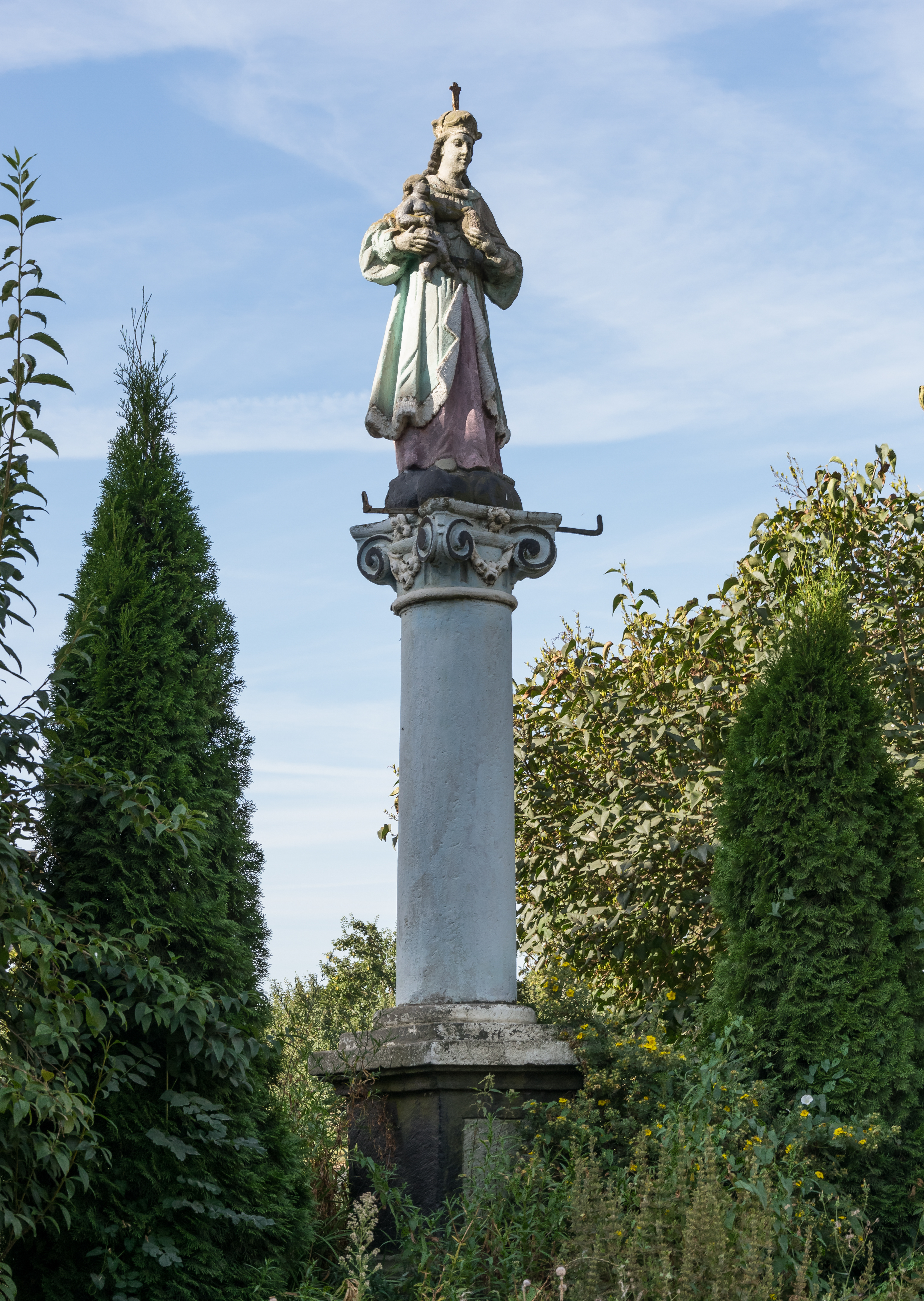 Maria column in Ruszowice